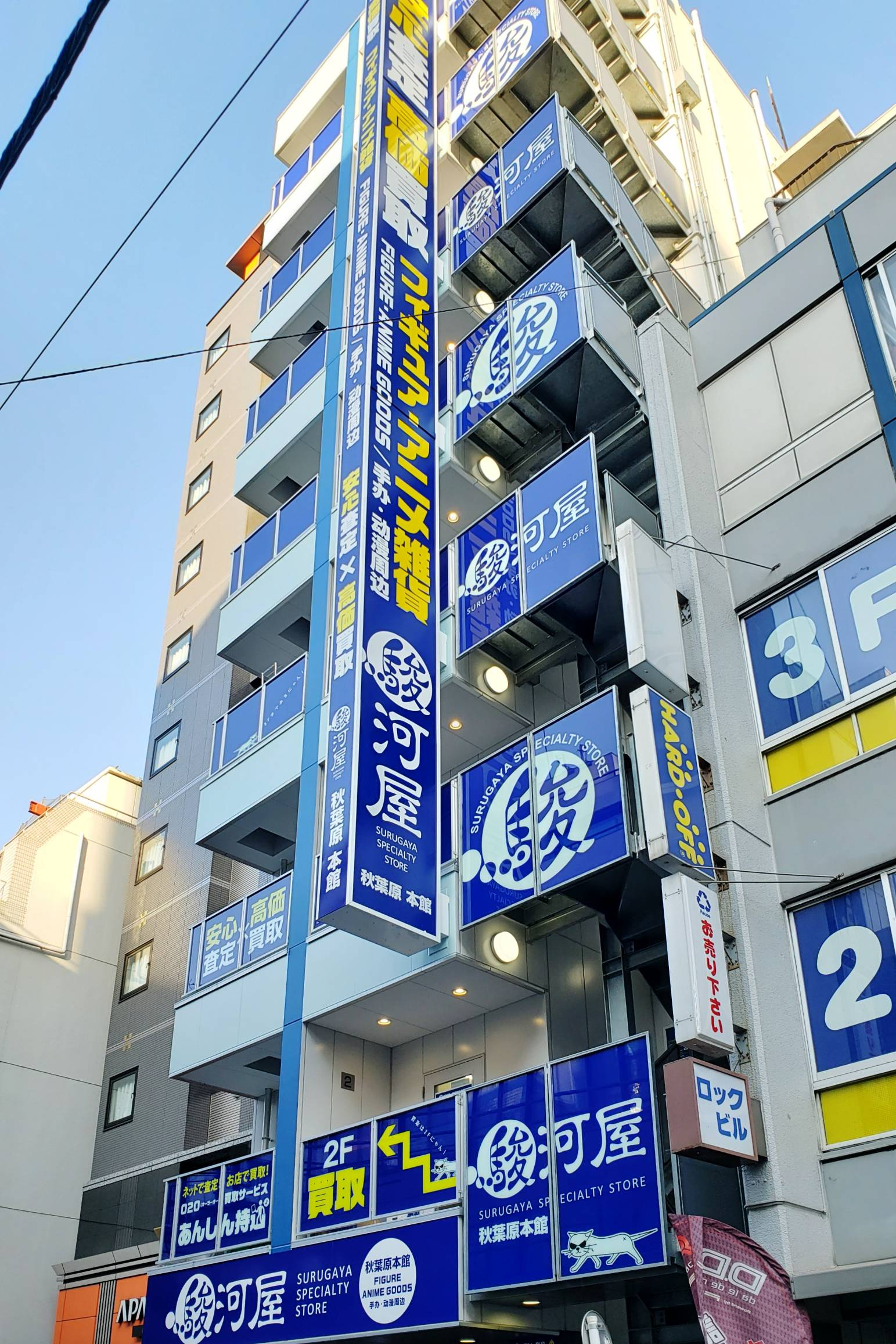 A-too Suruga-ya (Akihabara).